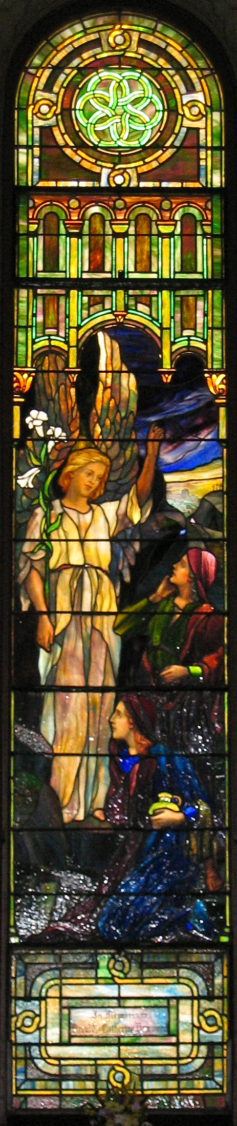 Zion Church's window "The Resurrection"